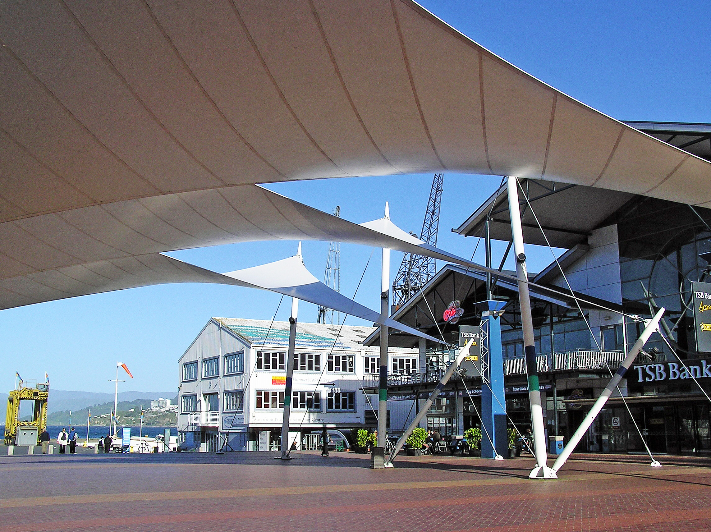 Queens Wharf, Wellington, New Zealand.